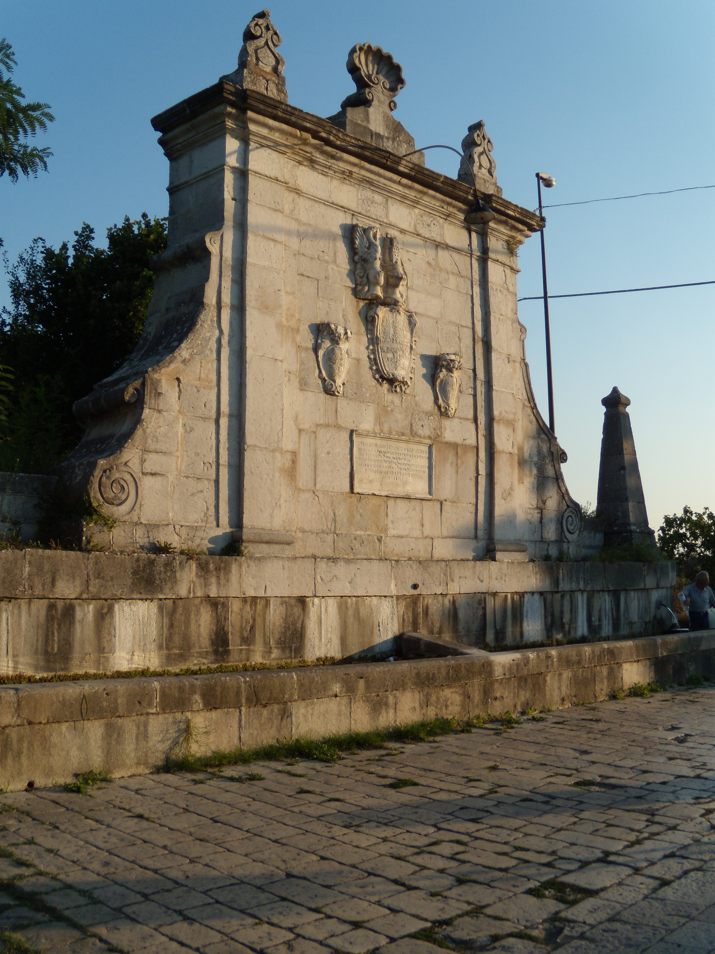 King Fountain in town of Grottaminarda